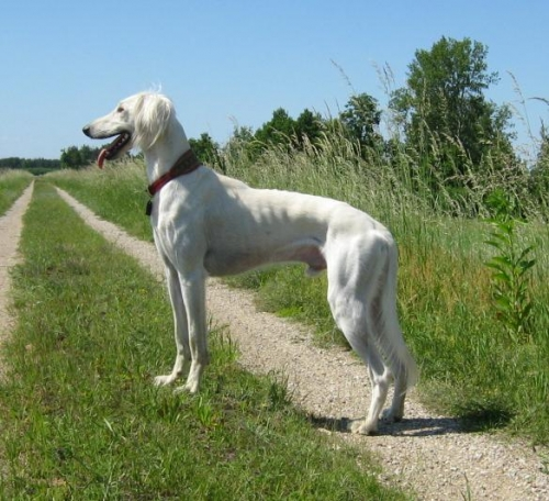 Middleasian greyhound Tazi, male "Unur" from kennel "Tulpar", owner: Marcin Błaszkowski in Poland.